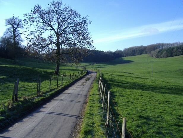 Kingscote Park A narrow lane threads its way through classic English countryside.